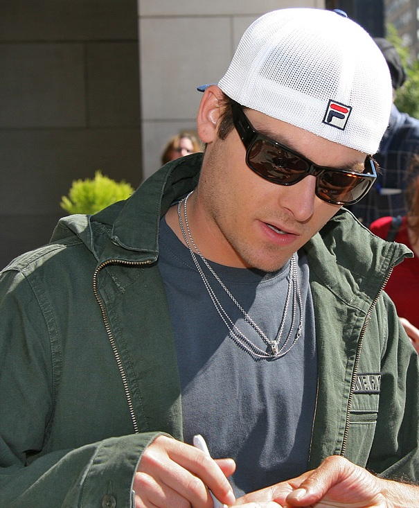 Kevin Zegers at the 2008 Toronto International Film Festival